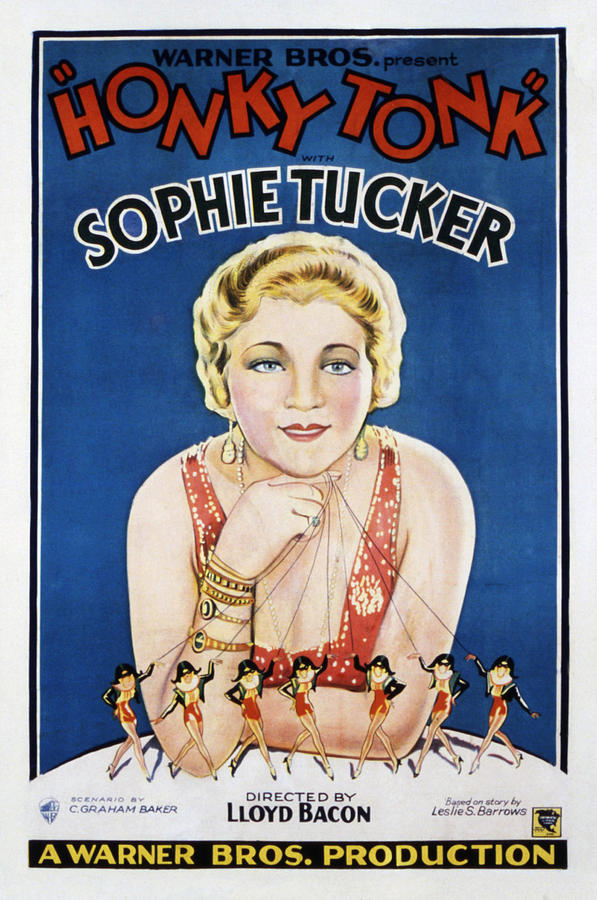 Poster for the 1929 film Honky Tonk. Renewal searches were done in both film and artwork for the years 1956 and 1957 There were no listings for the title in films and no listings for Warner's in artwork. There's no evidence of continuing copyright for the film or materials pertaining to it.